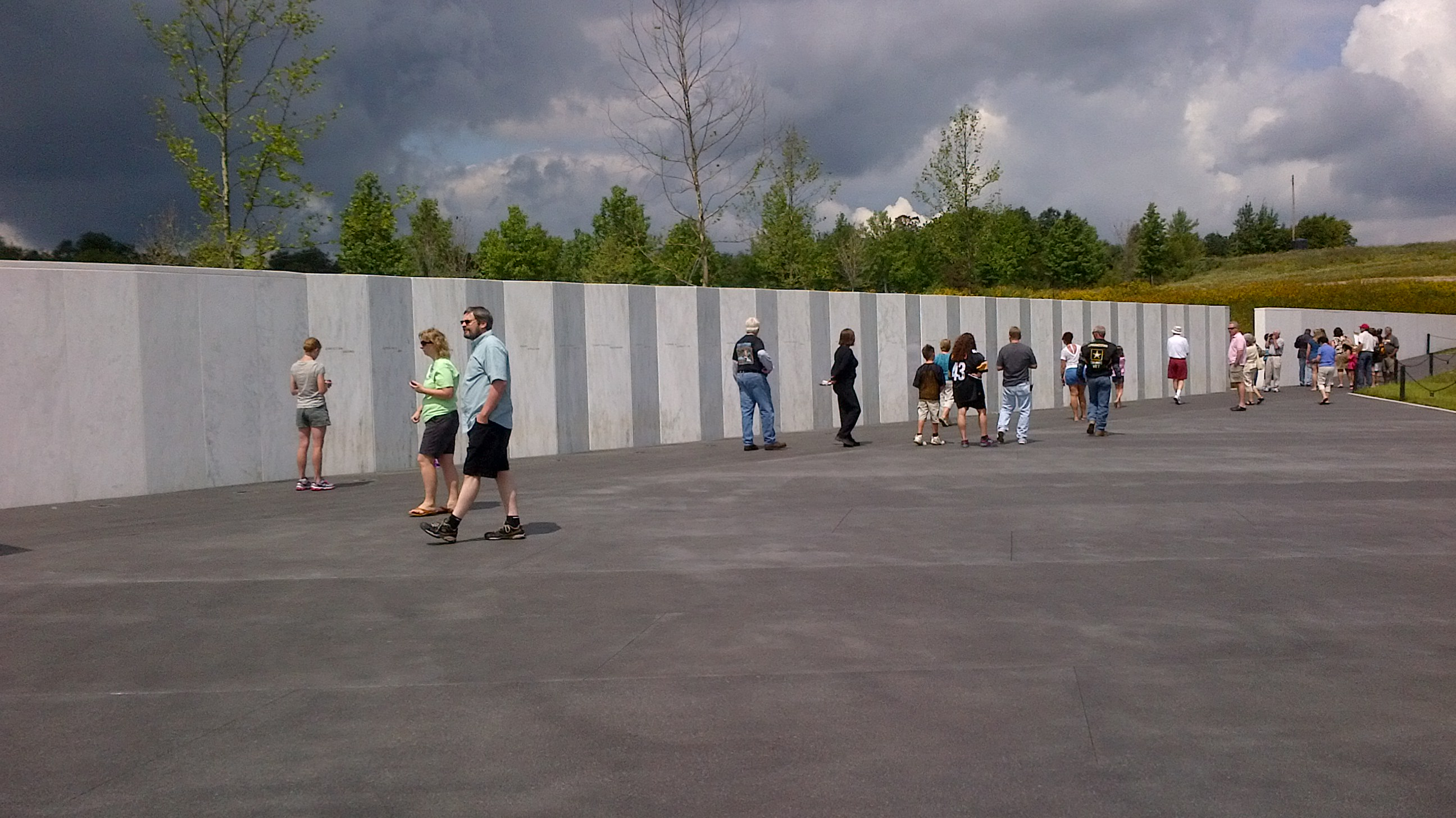 The names of the victims and heroes on United Airlines flight 93 are on this memorial wall in the flight 93 National Memorial National Park.